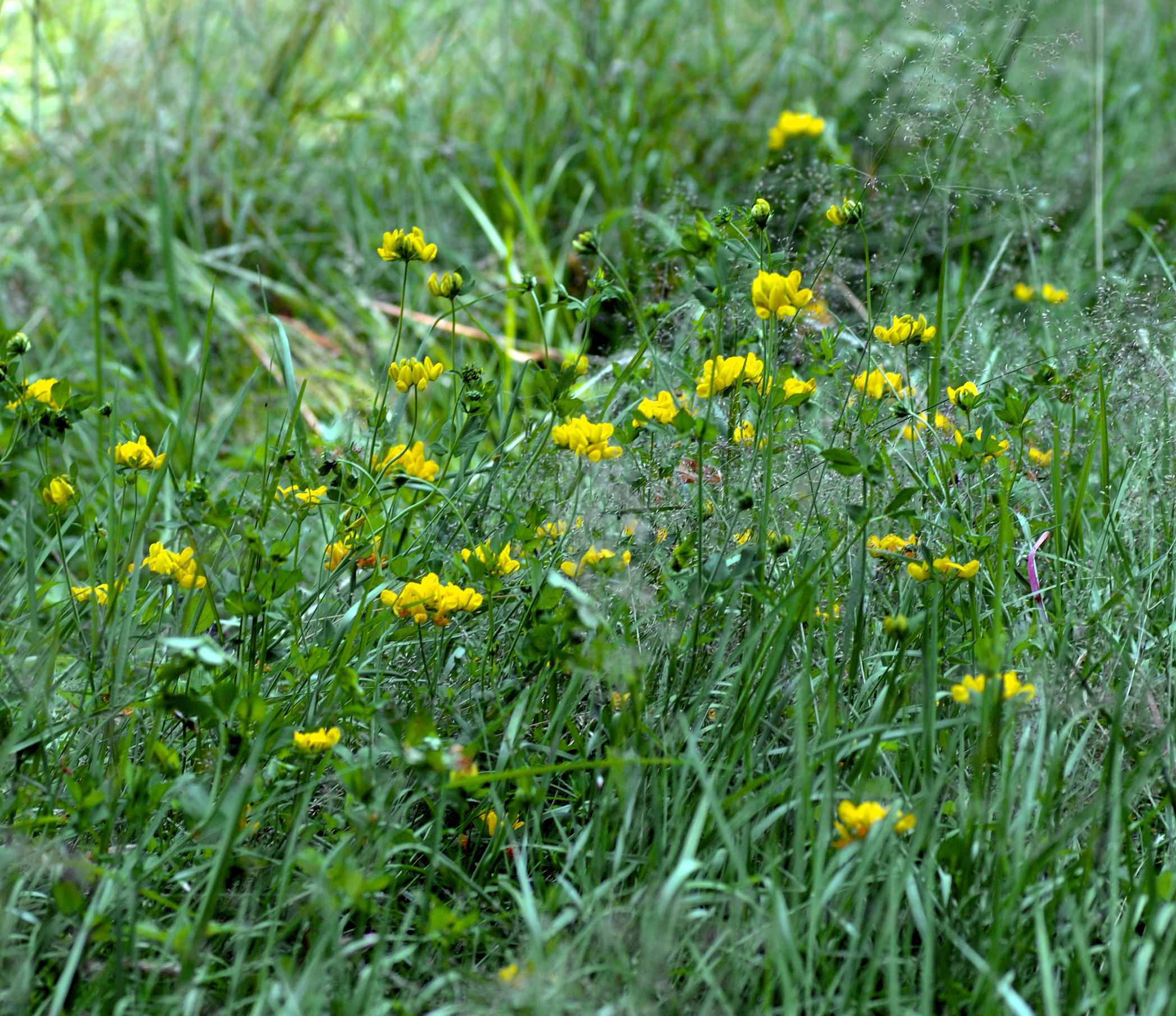 This image shows a few Lotus pedunculatus plants.